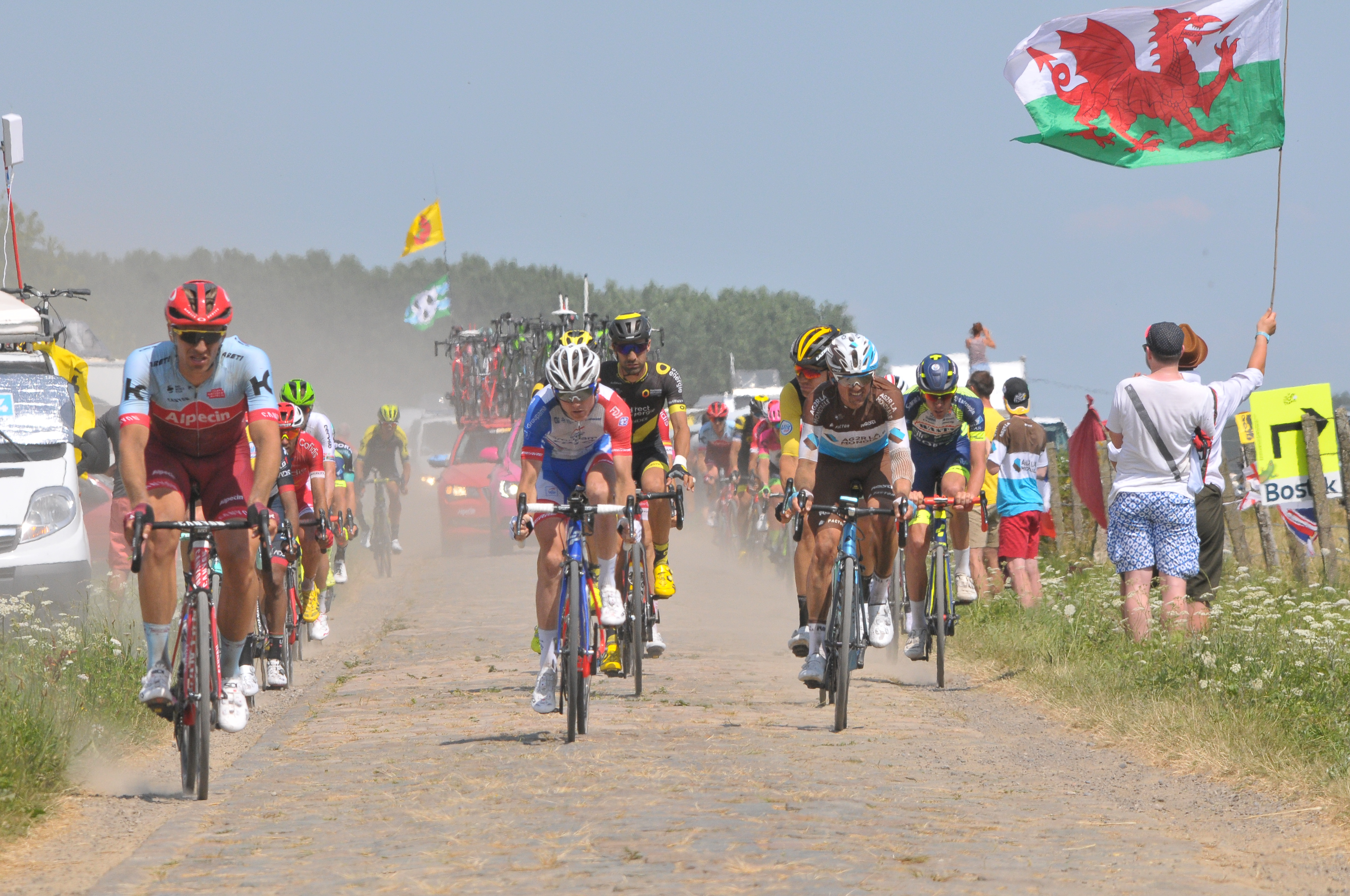 2018 Tour de France – stage 9 sector 9